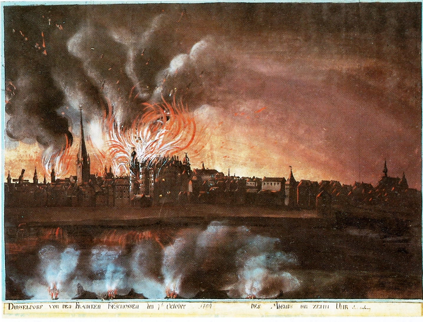 t